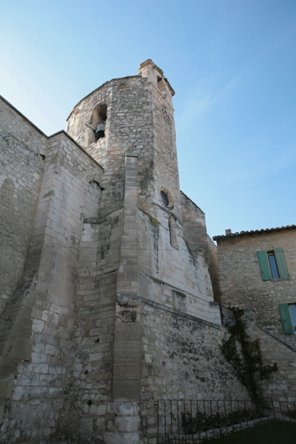 The church of the village of Velleron, Vaucluse, France